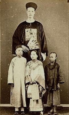 Zhan Shichai, the tallest person.